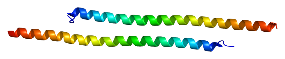 Structure of the RUNX1T1 protein. Based on PyMOL rendering of PDB 1wq6.